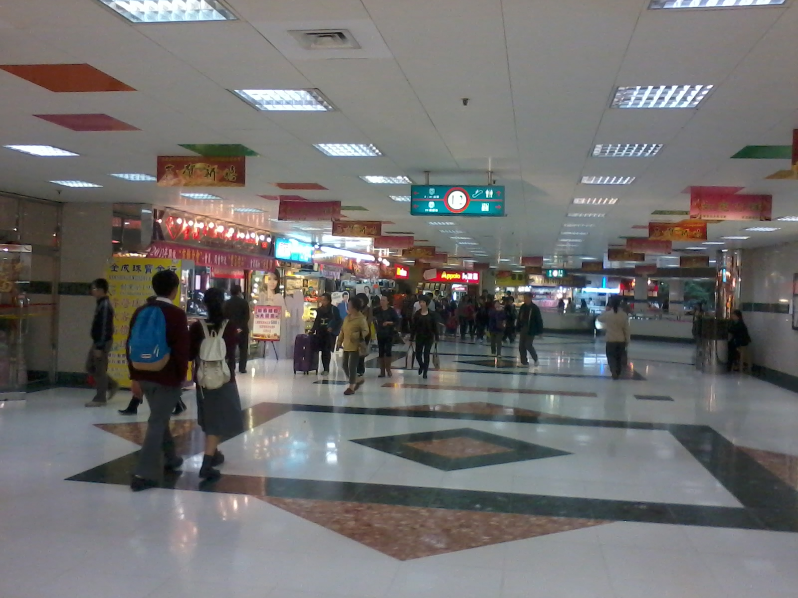 大埔廣場, Tai Po Plaza, Tai Po, Hong Kong